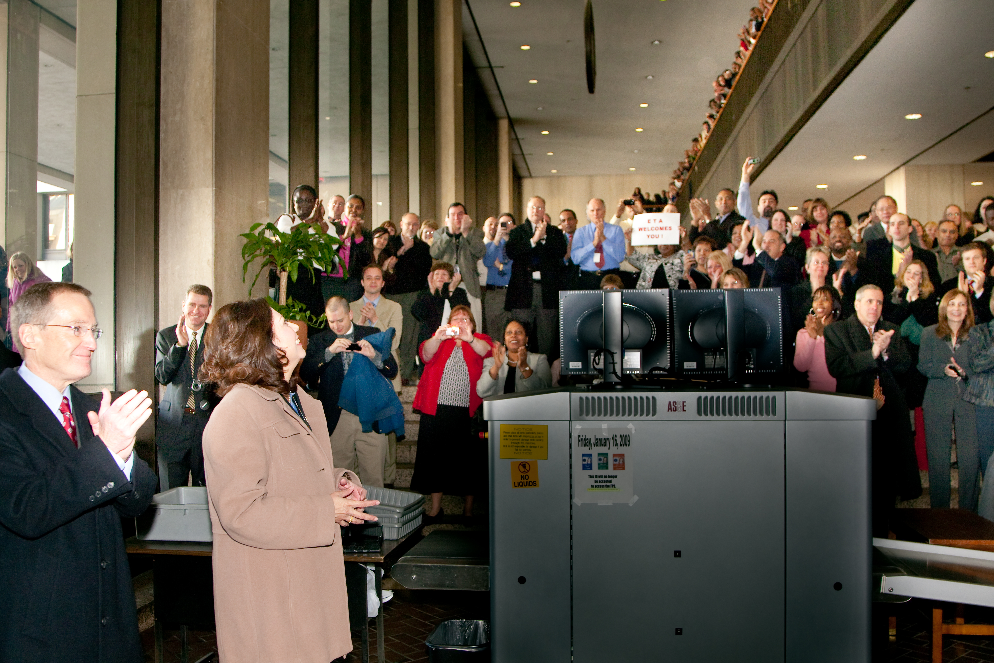 Hilda Solis, United States Secretary of Labor arrives at the Frances Perkins Building